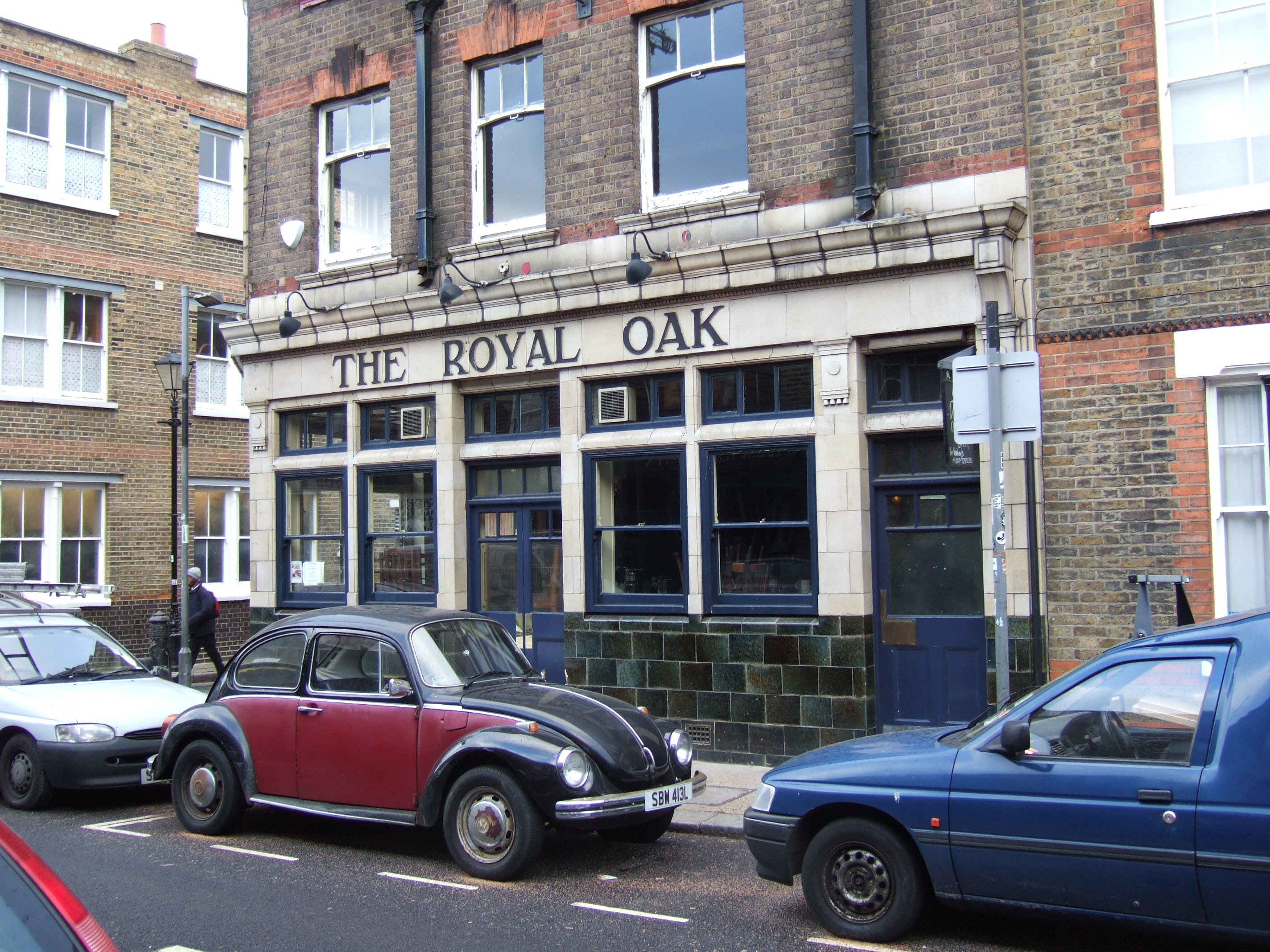 The Royal Oak, 73 Columbia Road London, E2 7RG